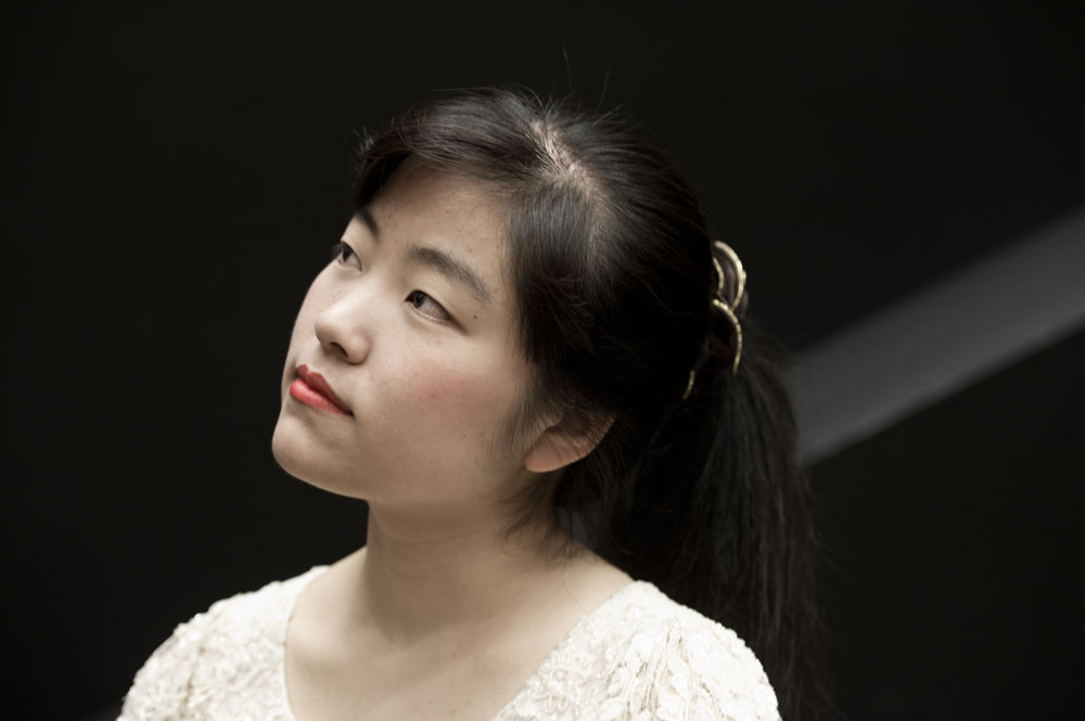 Pianist Shin-Heae Kang at the Lugano Festival 2012